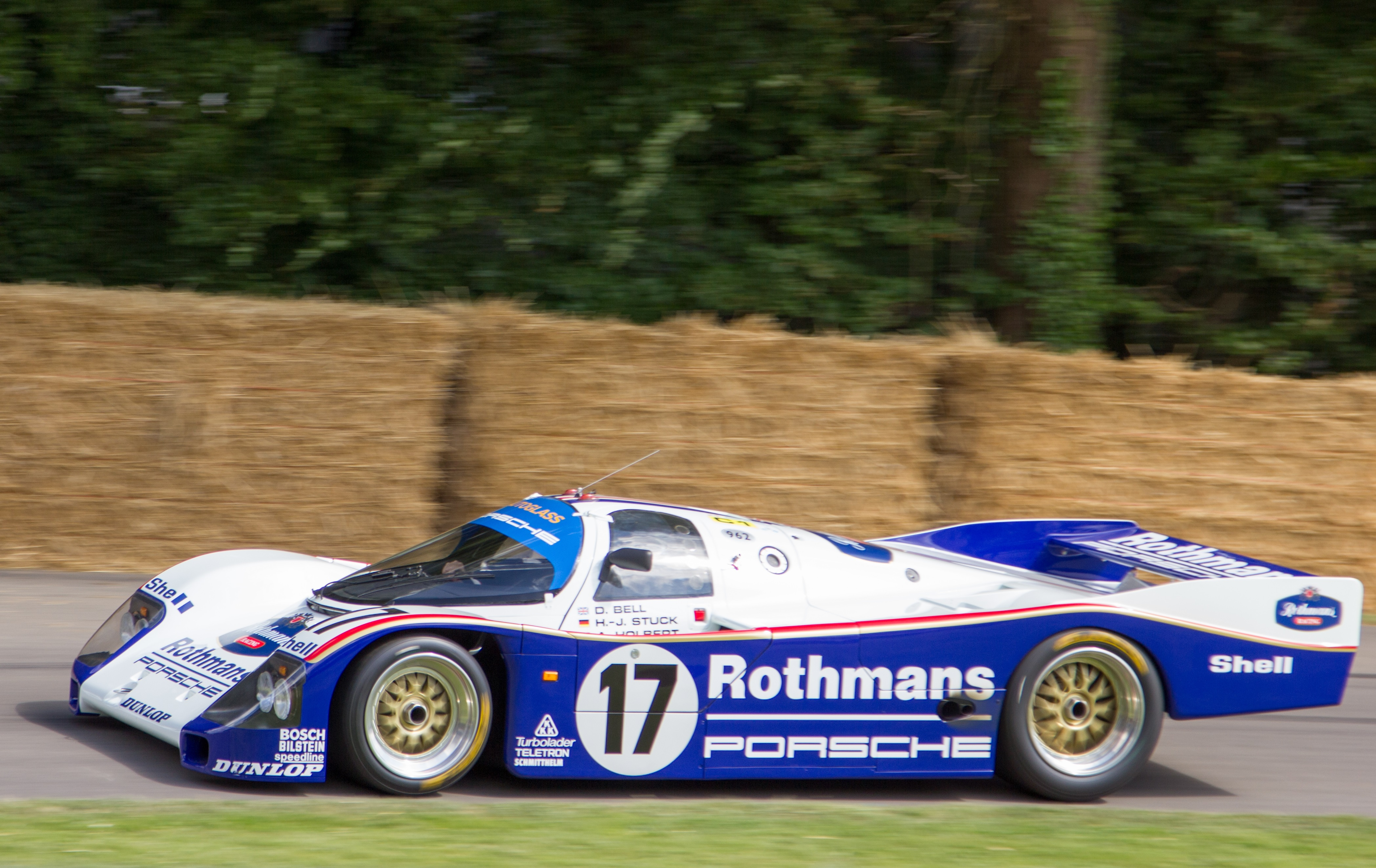 The No. 17 Porsche 962C, winner of the 1987 24 Hours of Le Mans, at the 2014 Goodwood Festival of Speed.